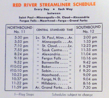 Schedule from a Great Northern brochure for its train, The Red River.